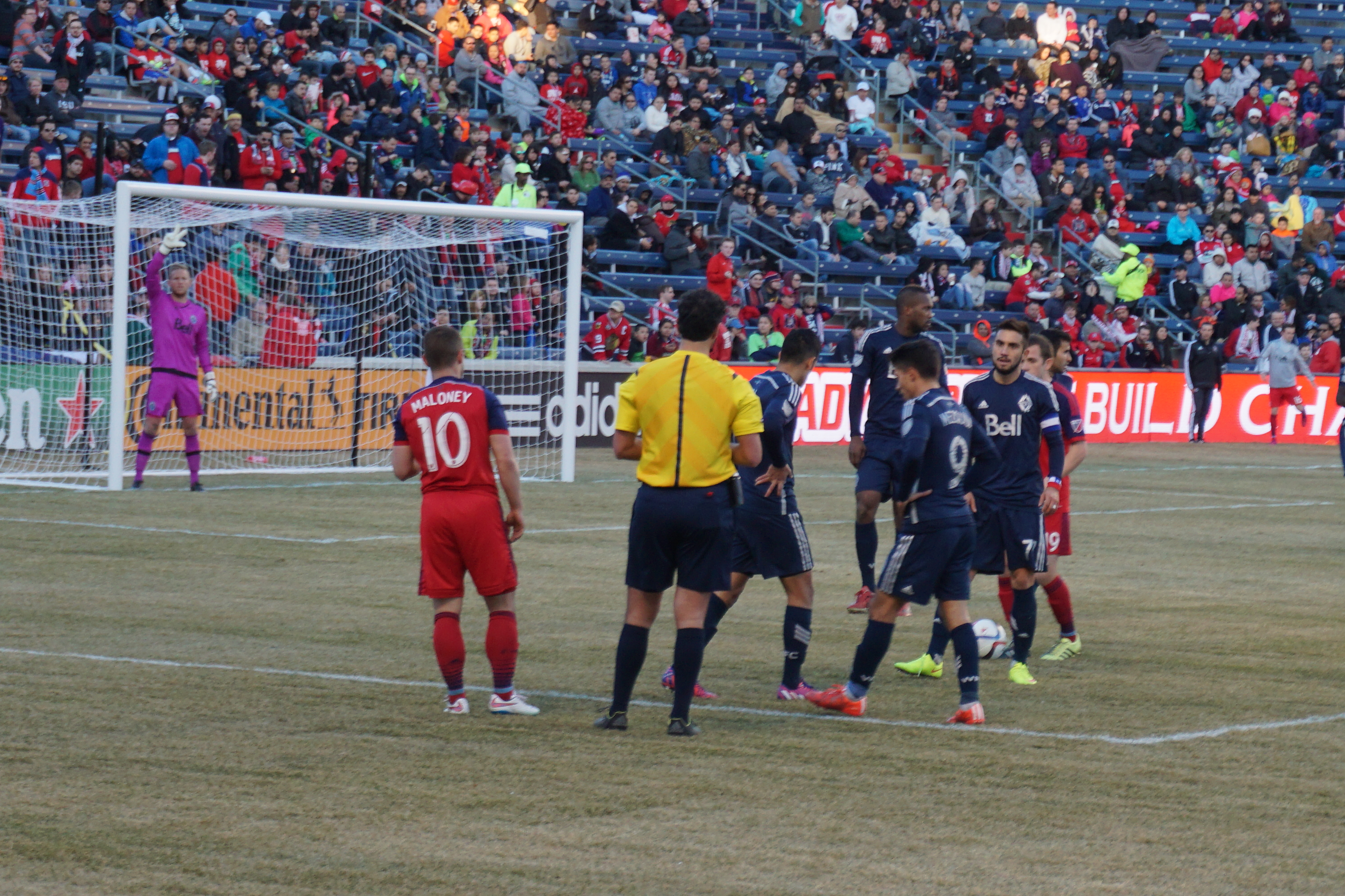 Second-half action during the match between the Chicago Fire and Vancouver Whitecaps FC at Toyota Park in Bridgeview, Illinois (United States). Final score: Chicago 0 – 1 Vancouver.